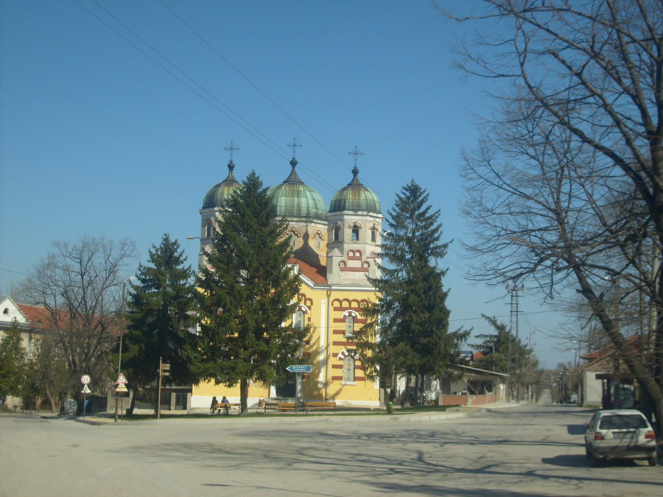 Bulgarian Orthodox church in Oryahovo